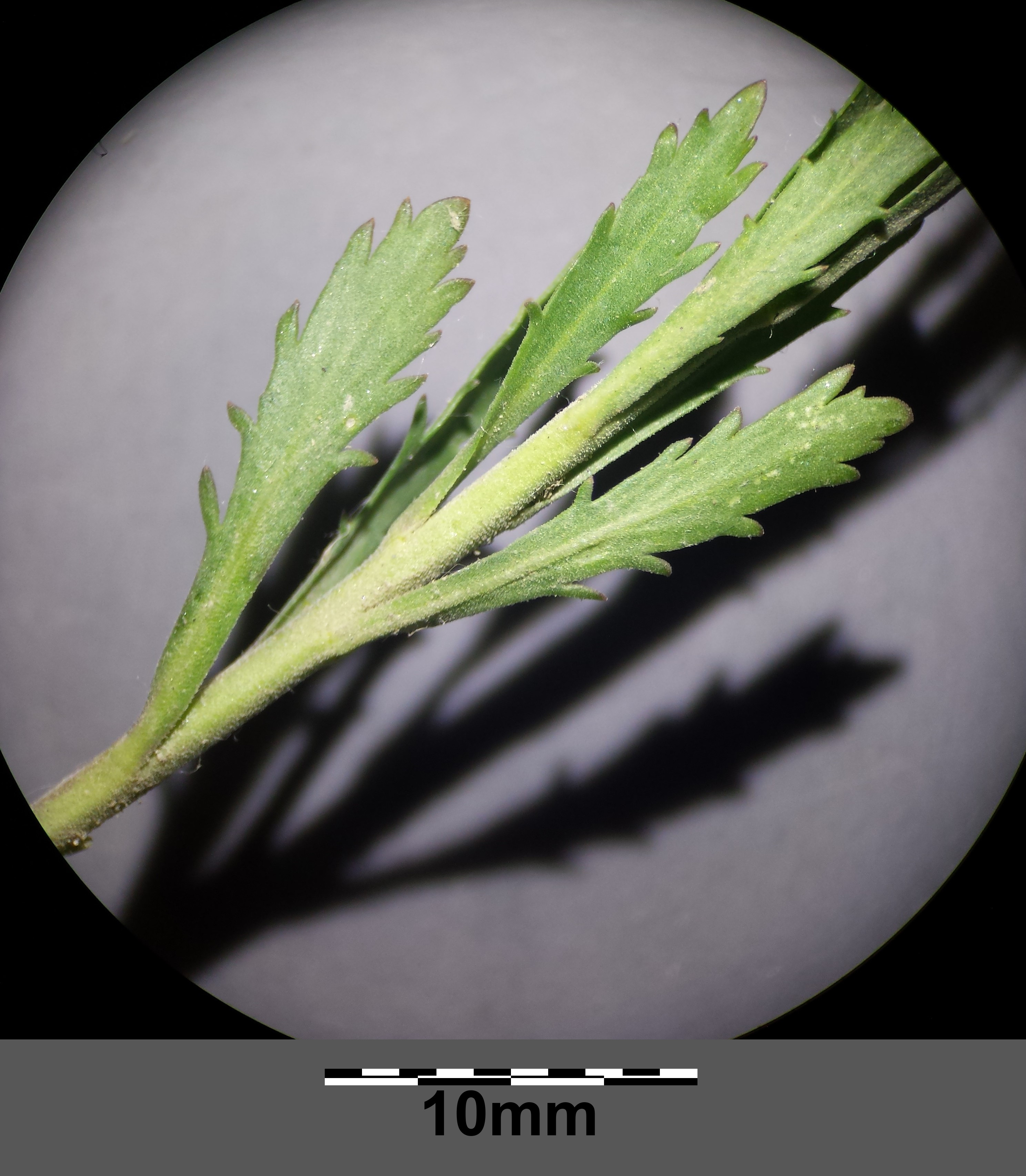 Stem with leaves Taxonym: Lepidium densiflorum ss Fischer et al. EfÖLS 2008 ISBN 978-3-85474-187-9 Location: Korneuburg rail station, district Korneuburg, Lower Austria - ca. 170 m a.s.l. Habitat: ruderal area